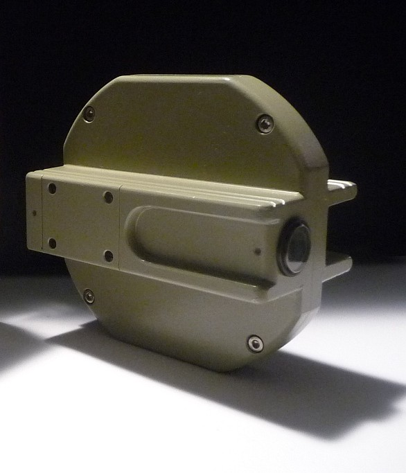 'Handgefaellmesser NECLI' (a one-hand-theodolite / clinometer) from Breithaupt, Type-No. 7028